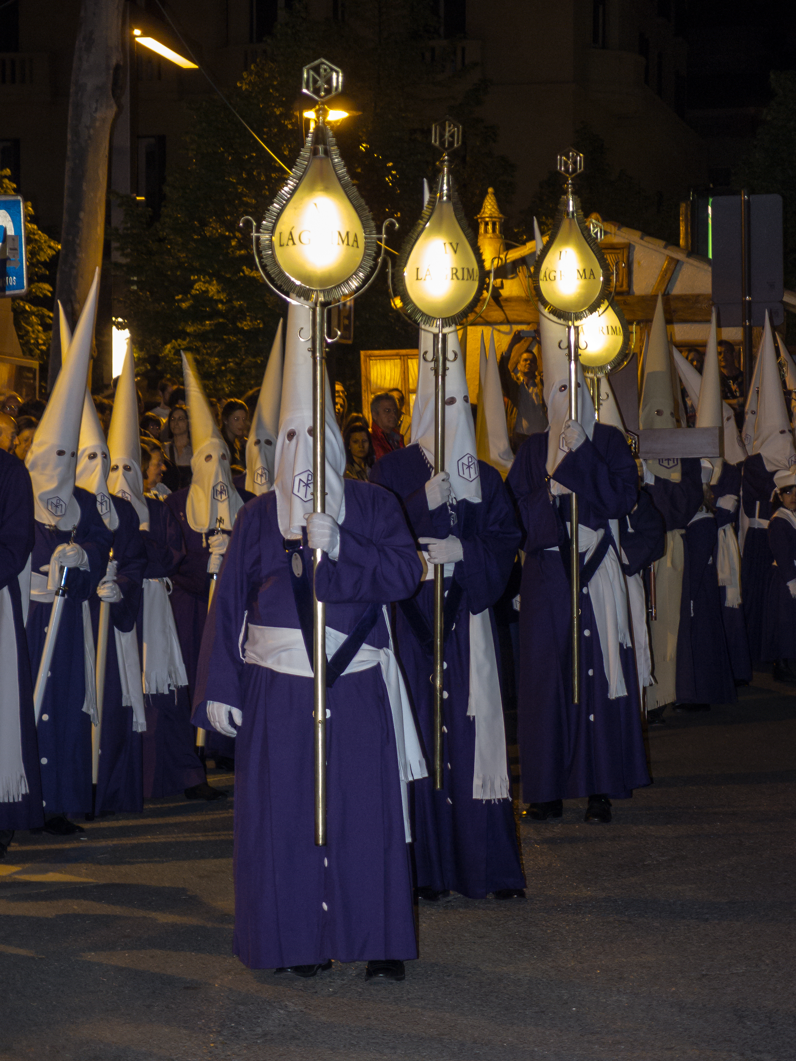 OLYMPUS DIGITAL CAMERA This is a photography of a Folklore festival in Spain (Wikidata id Q9075892).